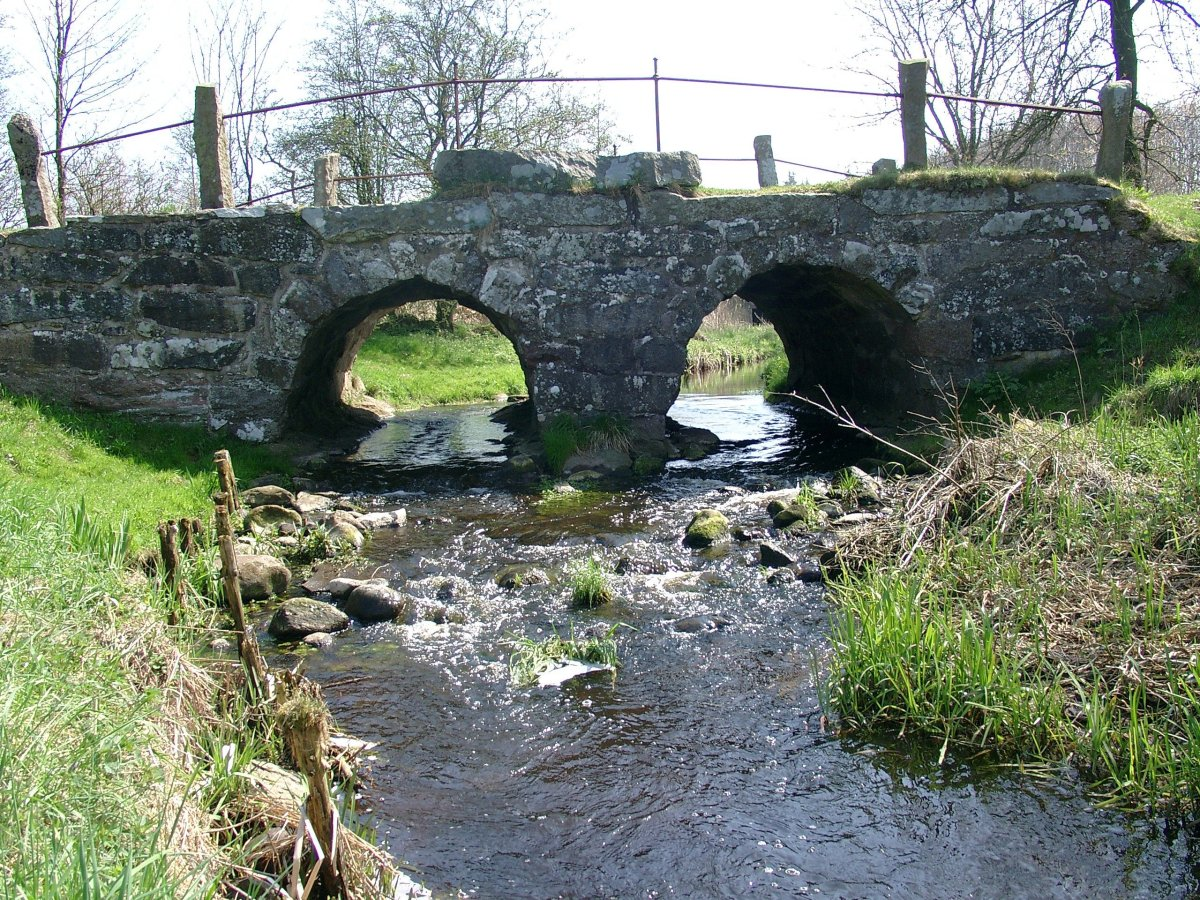 The old bridge Gejlå bro on Hærvejen (the old "army road") in southern Jutland in Denmark. Seen towards East